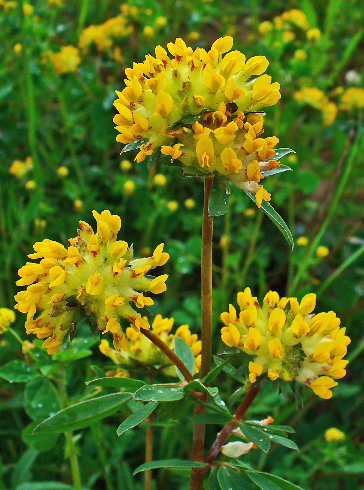 Anthyllis vulneraria, Fabaceae, Common Kidneyvetch, Kidney Vetch, inflorescences; along the Autobahn near Heimsheim, Germany. The plant is used in homeopathy as remedy: Anthyllis vulneraria (Anthy-v.)